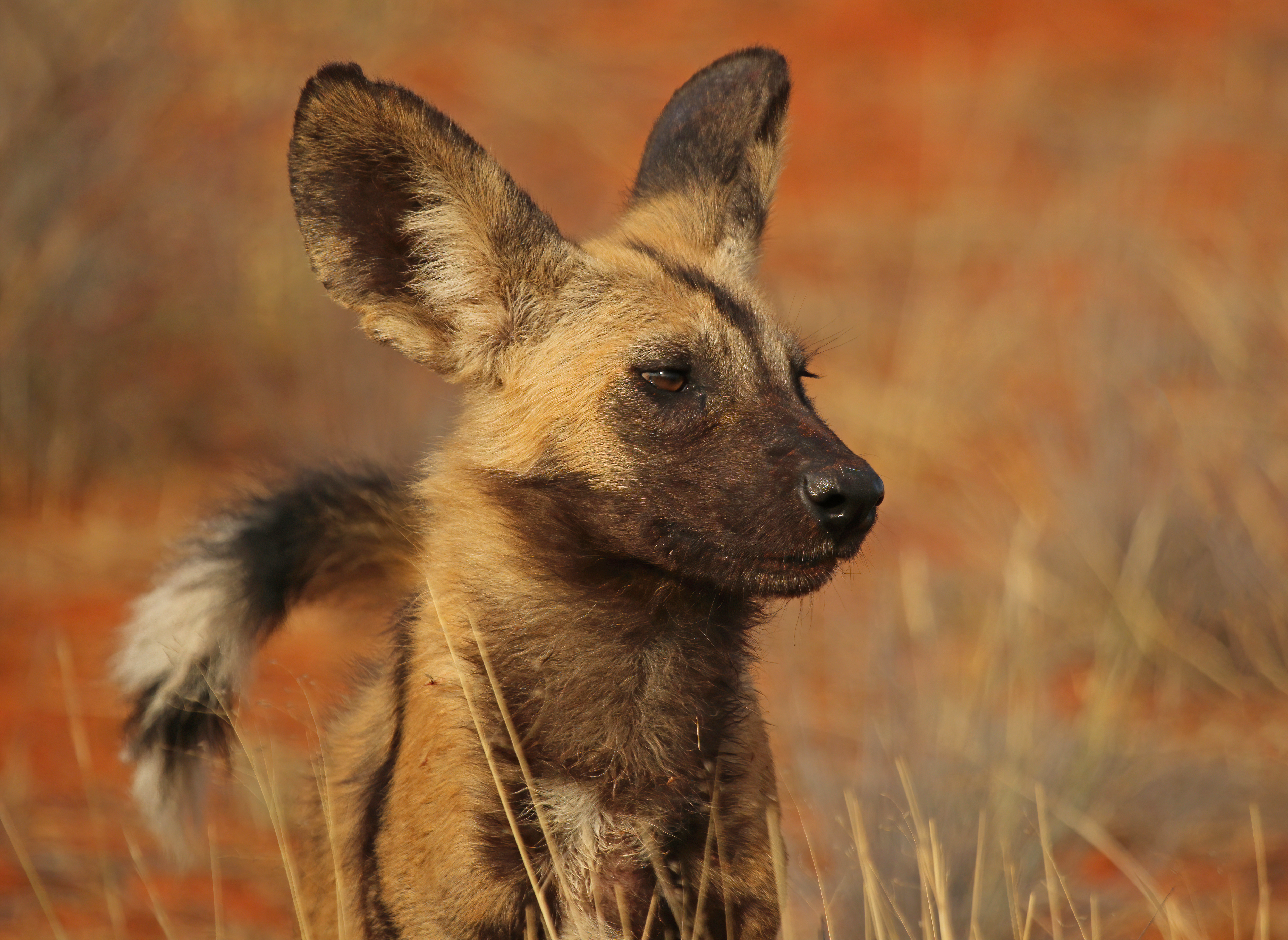 African wild dog (Lycaon pictus pictus), Tswalu Kalahari Reserve, South Africa